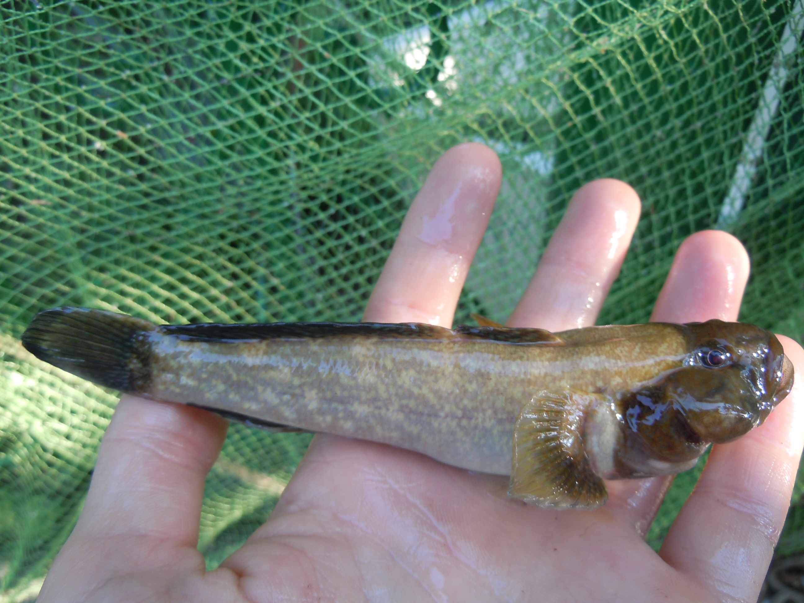 The mushroom goby (Ponticola eurycephalus) from the Dnieper Estuary, Ukraine